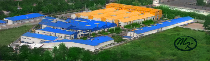 Plant LTD «Telekart-Pribor»